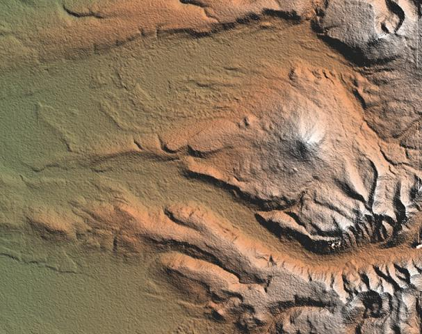 The light-colored, smooth-surfaced volcano right of the center of this NASA Shuttle Mission image is Plosky shield volcano in the Sredinny Range.